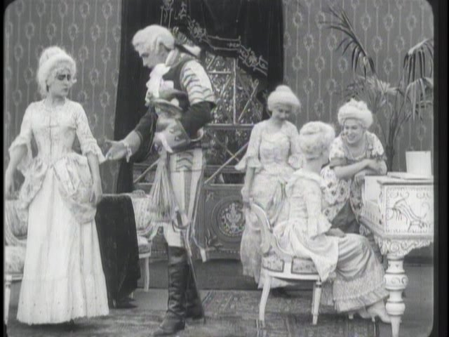 A screenshot from a 1910 film "The Queen of Spades" (Pikovaya dama)